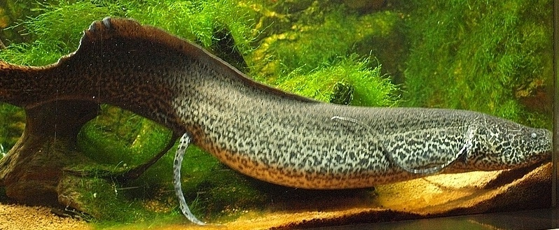 Marbled lungfish (Protopterus aethiopicus)